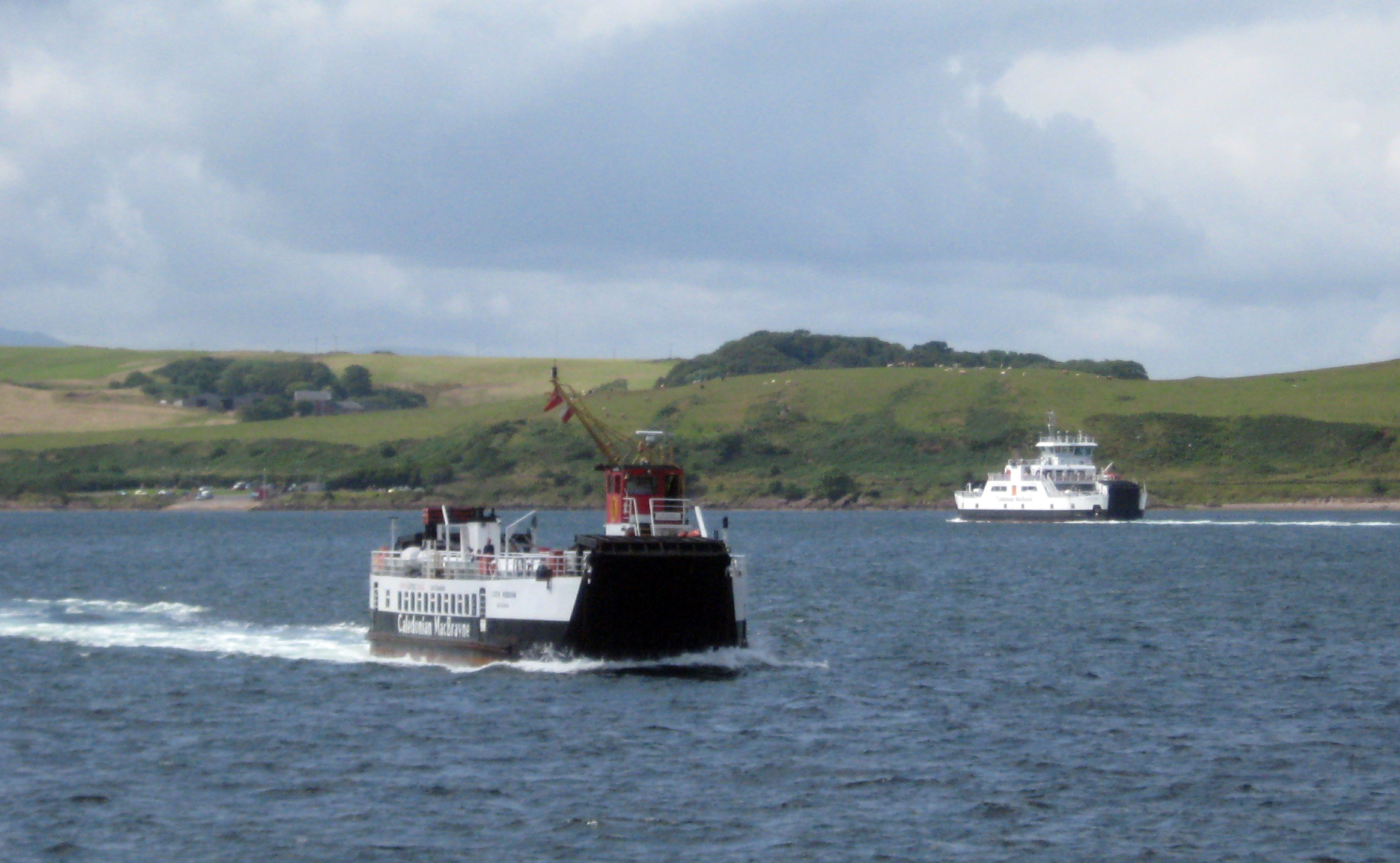 Cumbrae Slip on Great Cumbrae: in the foreground MV Loch Riddon comes towards Largs pier, while in the distance MV Loch Shira nears Cumbrae.